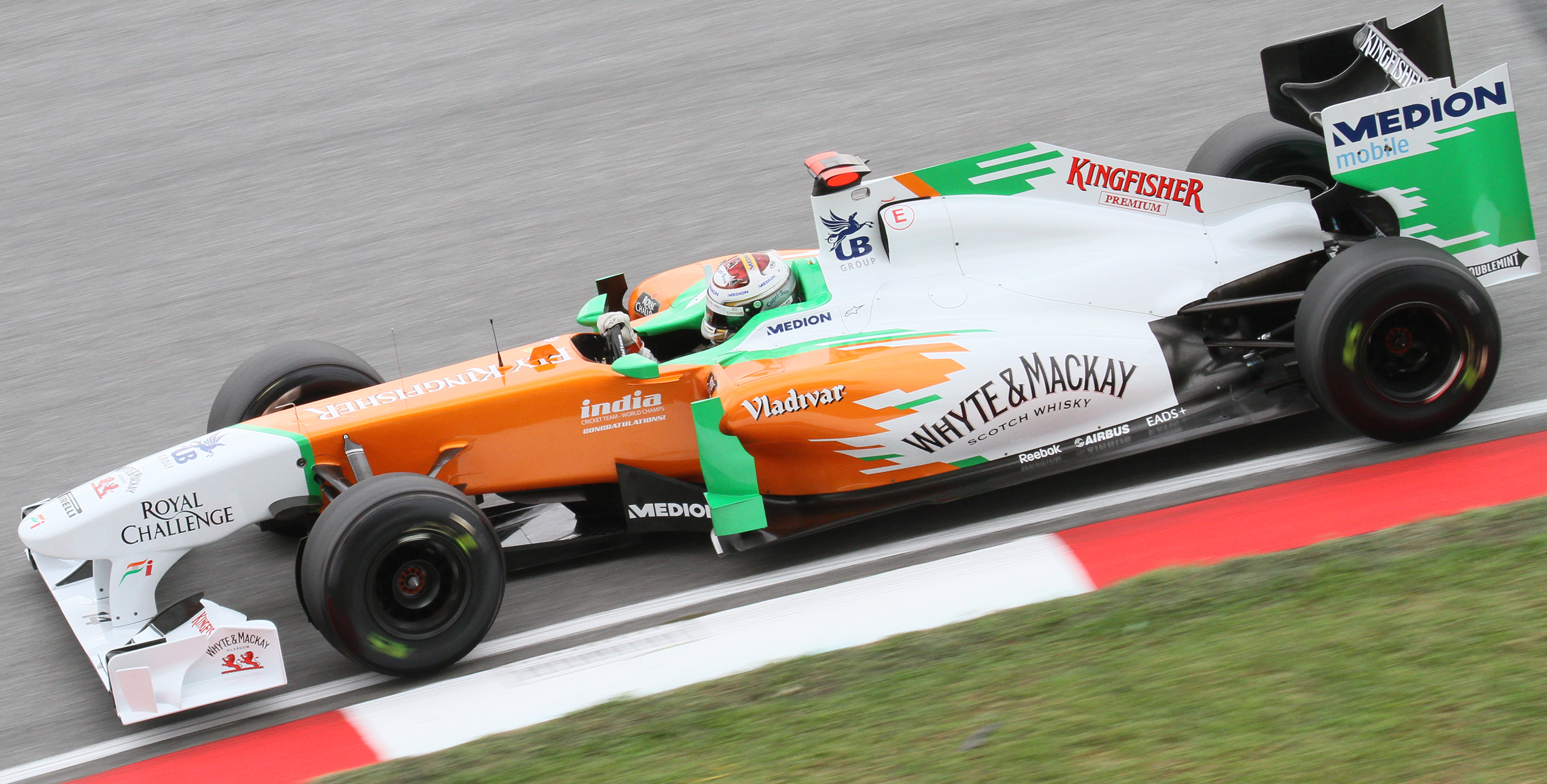 Formula One 2011 Rd.2 Malaysian GP: Adrian Sutil (Force India) during the first practice session on Friday.